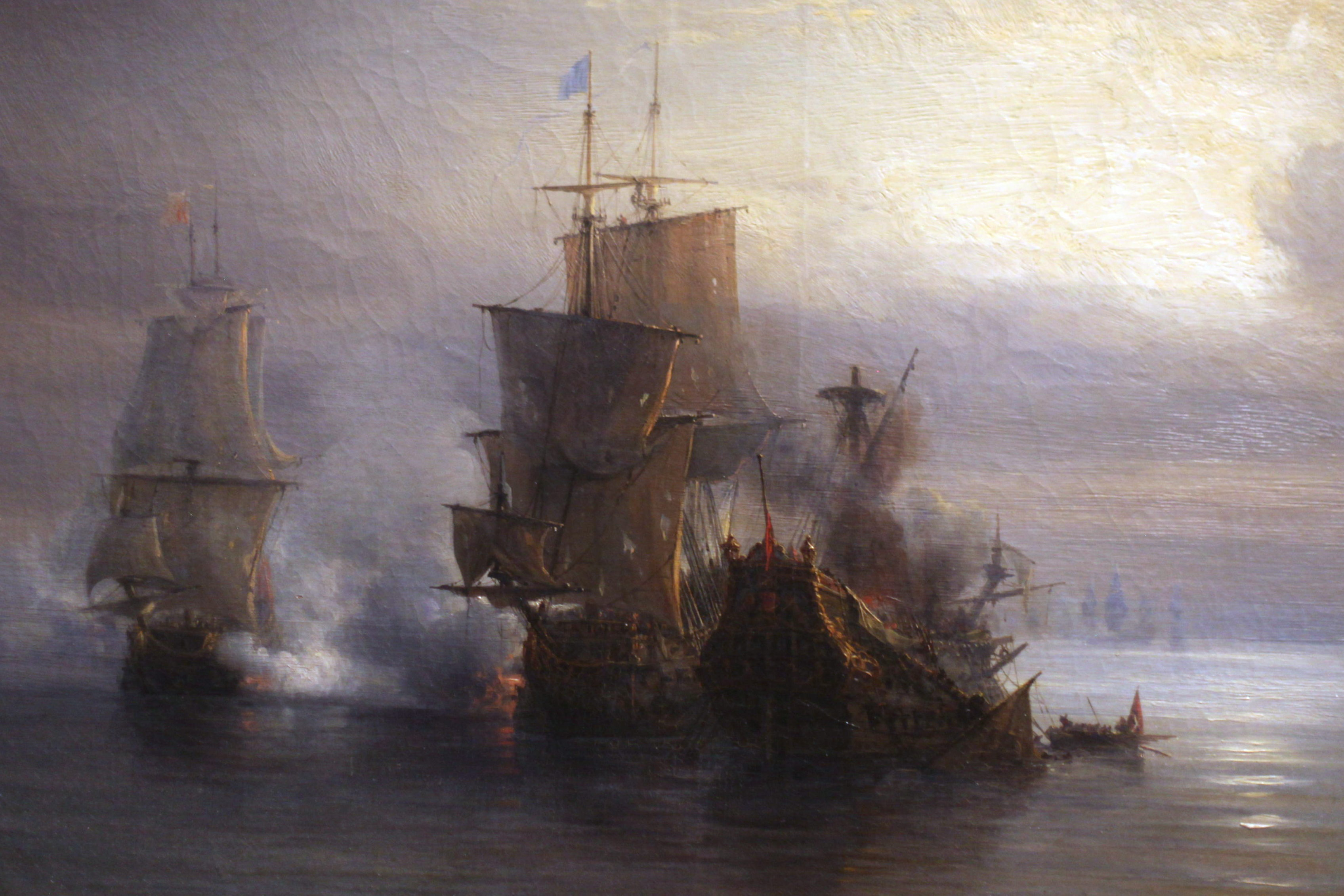 The French ship Protée capturing the English ship HMS Pendennis , supported by the French Triton and Salisbury. In the background, the battle between six other French warships, French privateers, and the English ships Blackwall and HMS Sorlings. The battle actually took place on 20 October 1705.